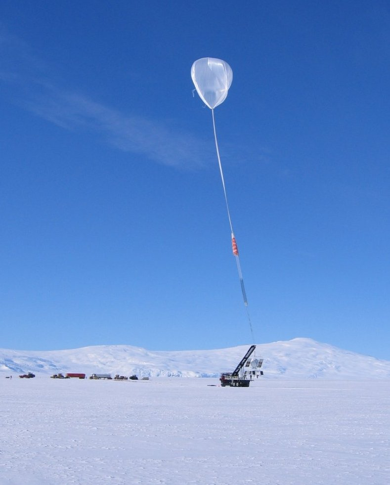 Launch of the ATIC balloon-experiment (Advanced Thin Ionization Calorimeter) to detect cosmic rays over Antarctica.